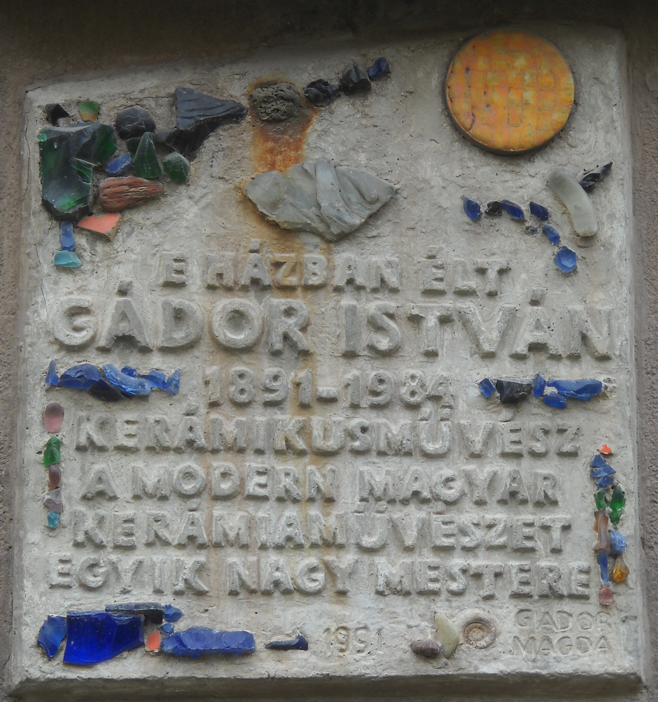 Commemorative plaque of István Gádor, Budapest District XIV, Cházár András Street No 18